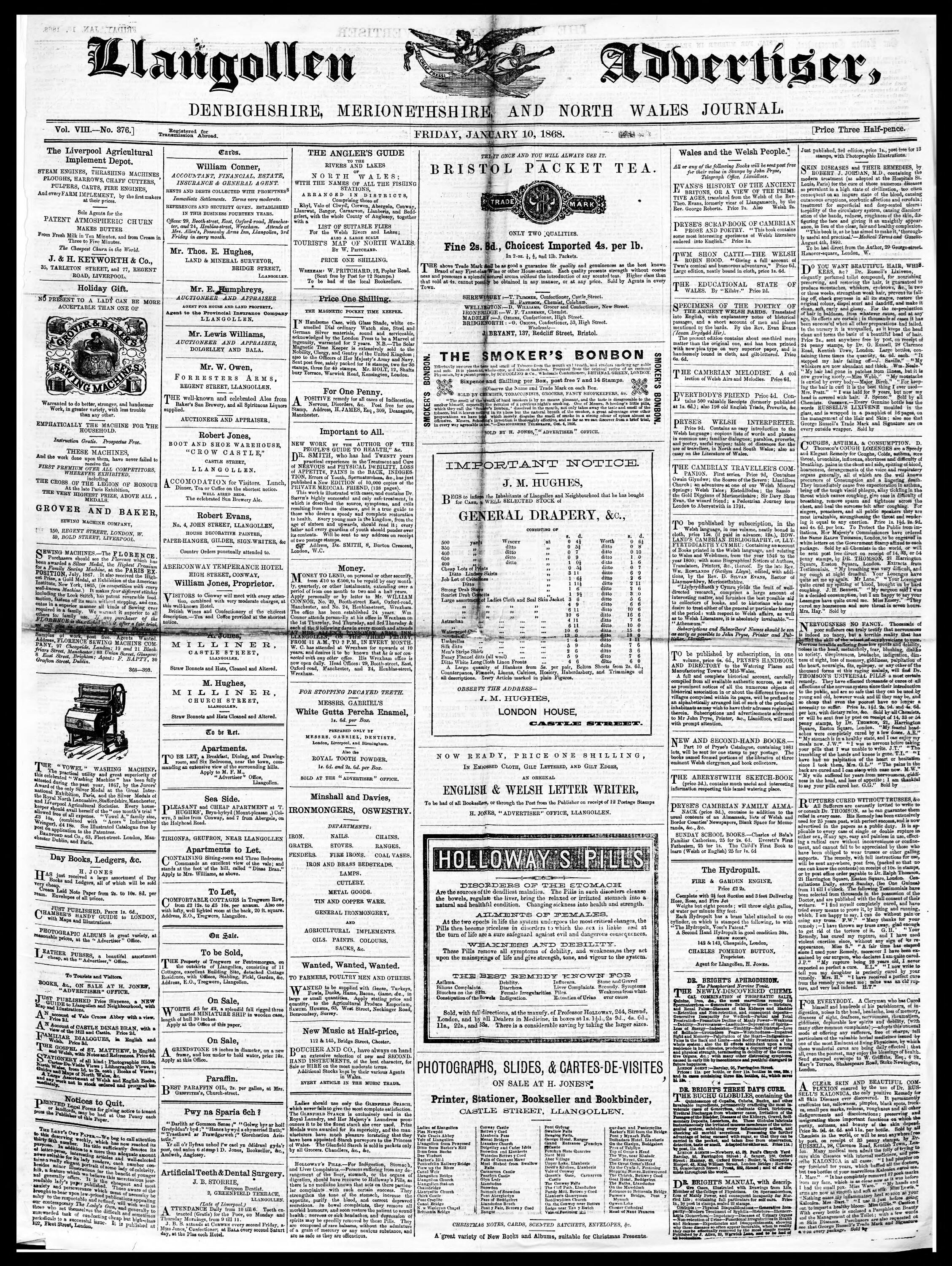 Front page of the earliest surviving copy of the Welsh newspaper Llangollen Advertiser